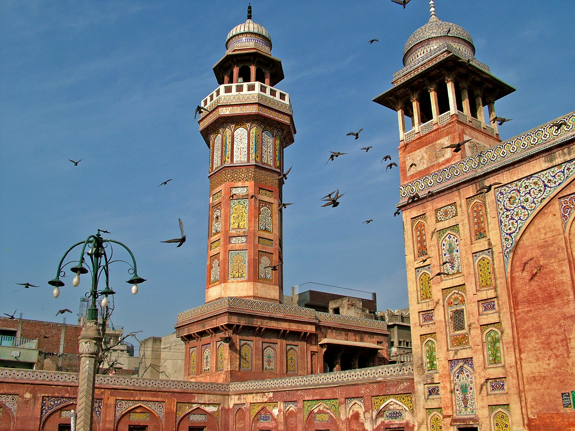 The Minaret of the Wazir Khan Mosque